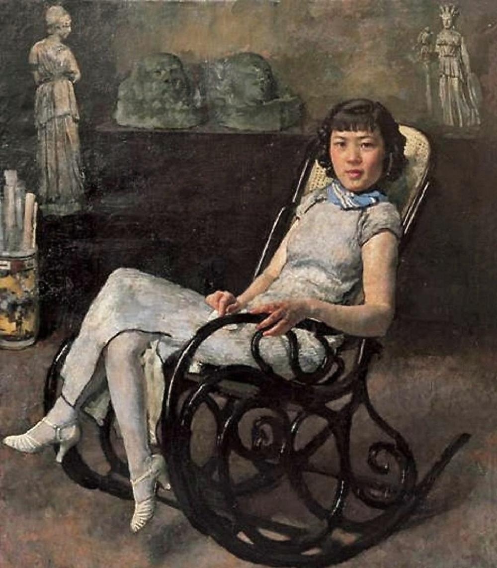 Portrait-of Sun Duoci (1912-1975)